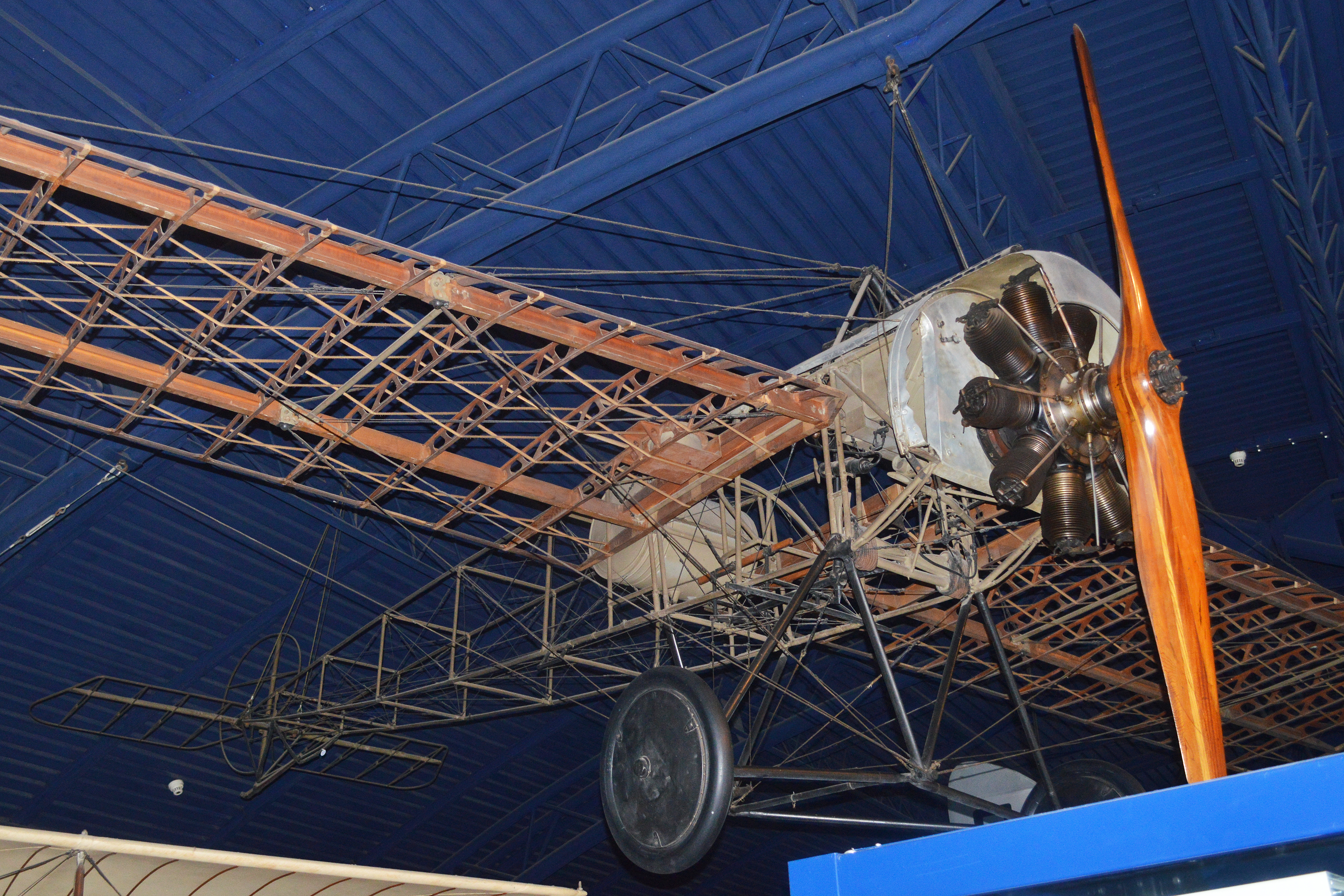 c/n 509. The Fokker E.III, often known as the Eindecker, was significant in that it was the first aeroplane to have a fixed, forward-firing machine-gun, synchronised to fire through the propeller. It was also very maneuverable and is the aeroplane with which Max Immelmann created the Immelmann Turn, now a recognised aerobatic maneuver. The impact of the Eindecker was so significant that it was known as the ‘Fokker Scourge’ to the Allies after it appeared in July 1915, and only when more advanced Allied types appeared in early 1916 did it’s dominance fall away. This sole surviving example was captured when it landed at the British aerodrome at St Omer, after the pilot became lost in haze. It was test-flown against several Allied types and eventually joined the Science Museum in 1918. It is on display without fabric in the ‘Flight’ Hall. Science Museum, South Kensington, London. 16-6-2015